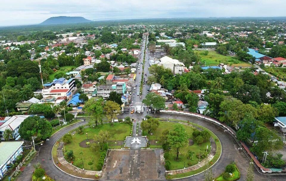 Office of the Regional Governor or ORG Compound drone shot facing the former runway of Cotabato Airport